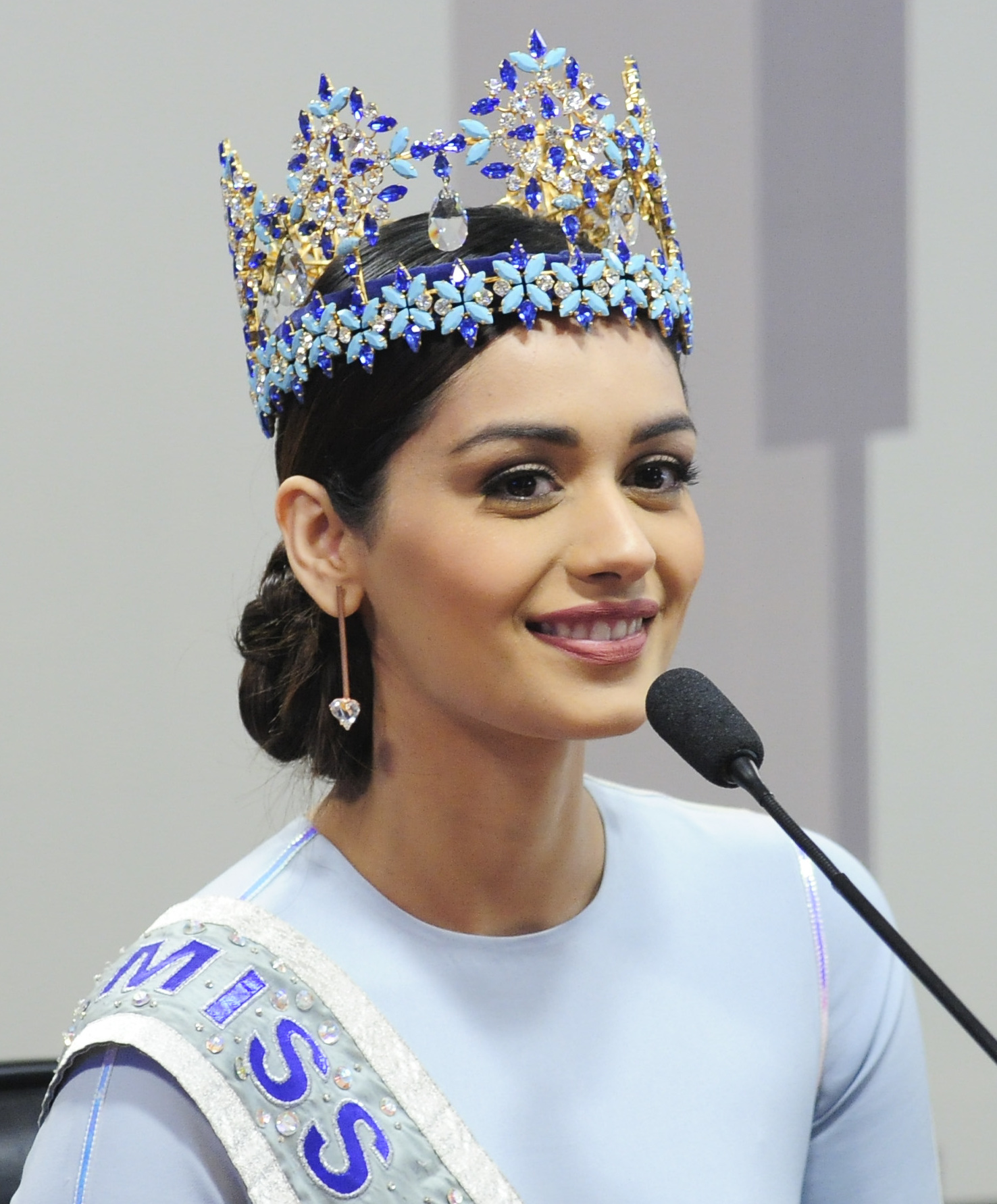 Miss World 2017, Manushi Chhillar in Brazil for a series of visits in favor of the APAE Movement and the Person with Intellectual and Multiple Disability. At the table, Miss World 2017, Manushi Chhillar.